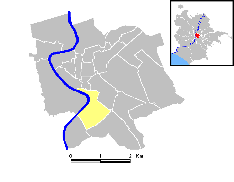 Locator maps of Rome (rioni)